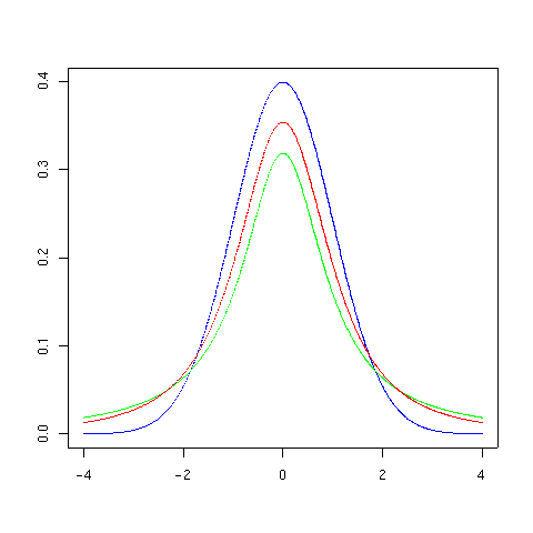 plot of t-distribution, 2 df